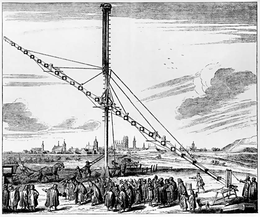 Woodcut illustration of a 45 meter long astronomical refracting telescope built by Johannes Hevelius